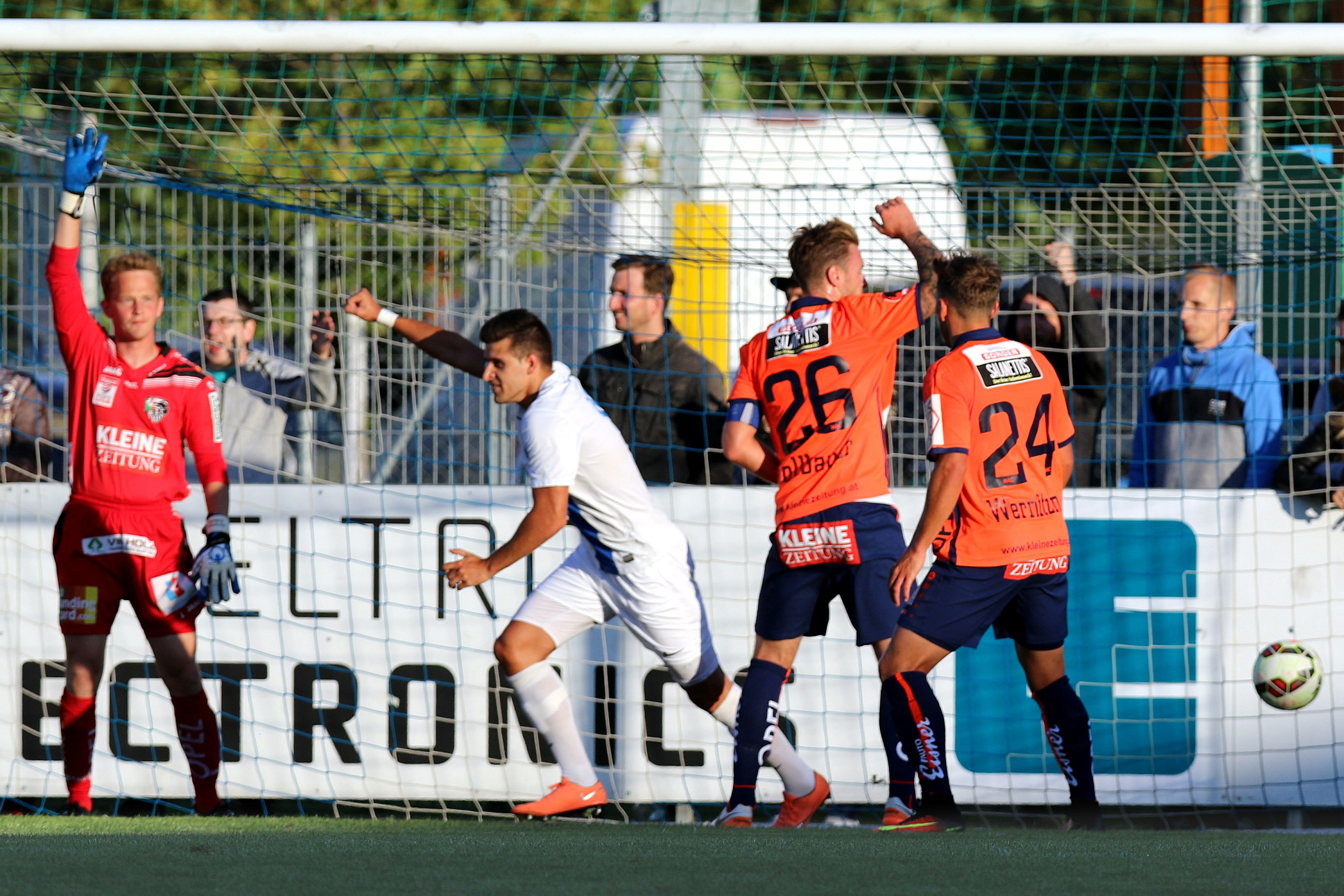 2016–17 Austrian Cup, 1st Round: ASK Ebreichsdorf vs. Wolfsberger AC 1-0 (1-0) at 2016-07-15 in Ebreichsdorf – The photo shows the goal for 1-0 scored by Marjan Markic (white shirt). Goalkeeper Christian Dobnik (left) is also too late like Michael Sollbauer (#26) and Christopher Wernitznig (#24)